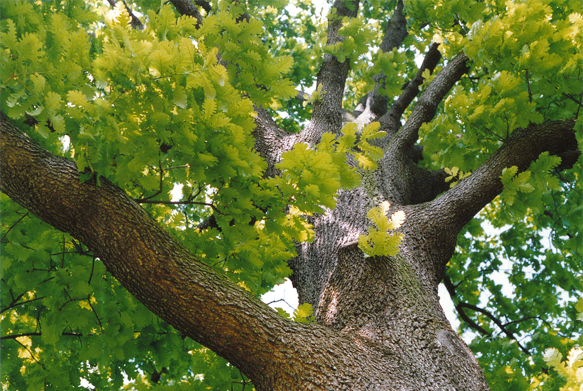 Hungarian Oak, Quercus frainetto, at Kew Botanic Garden, London, England.